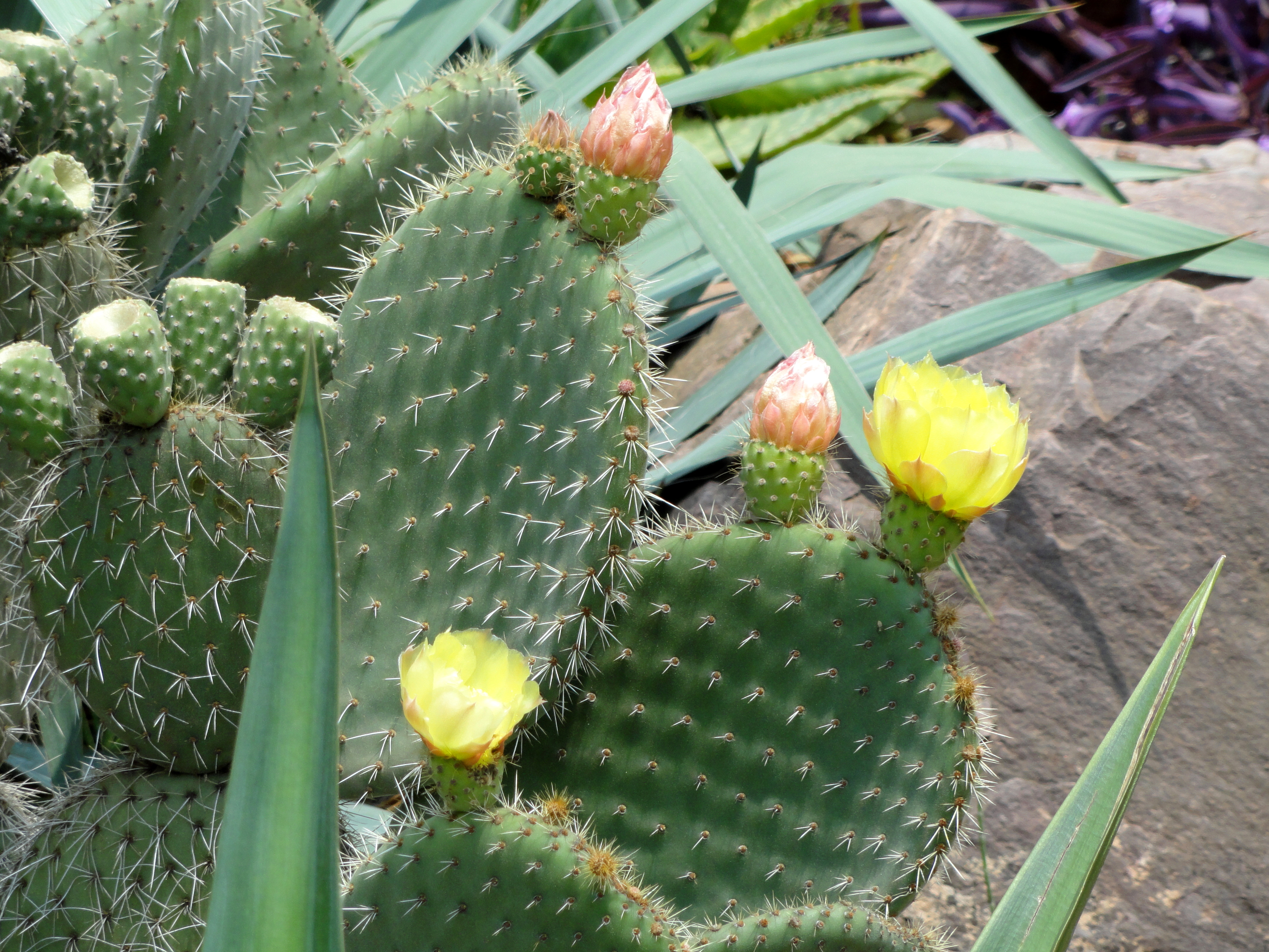 Plant specimen in the Kunming Botanical Garden, Kunming, Yunnan, China.